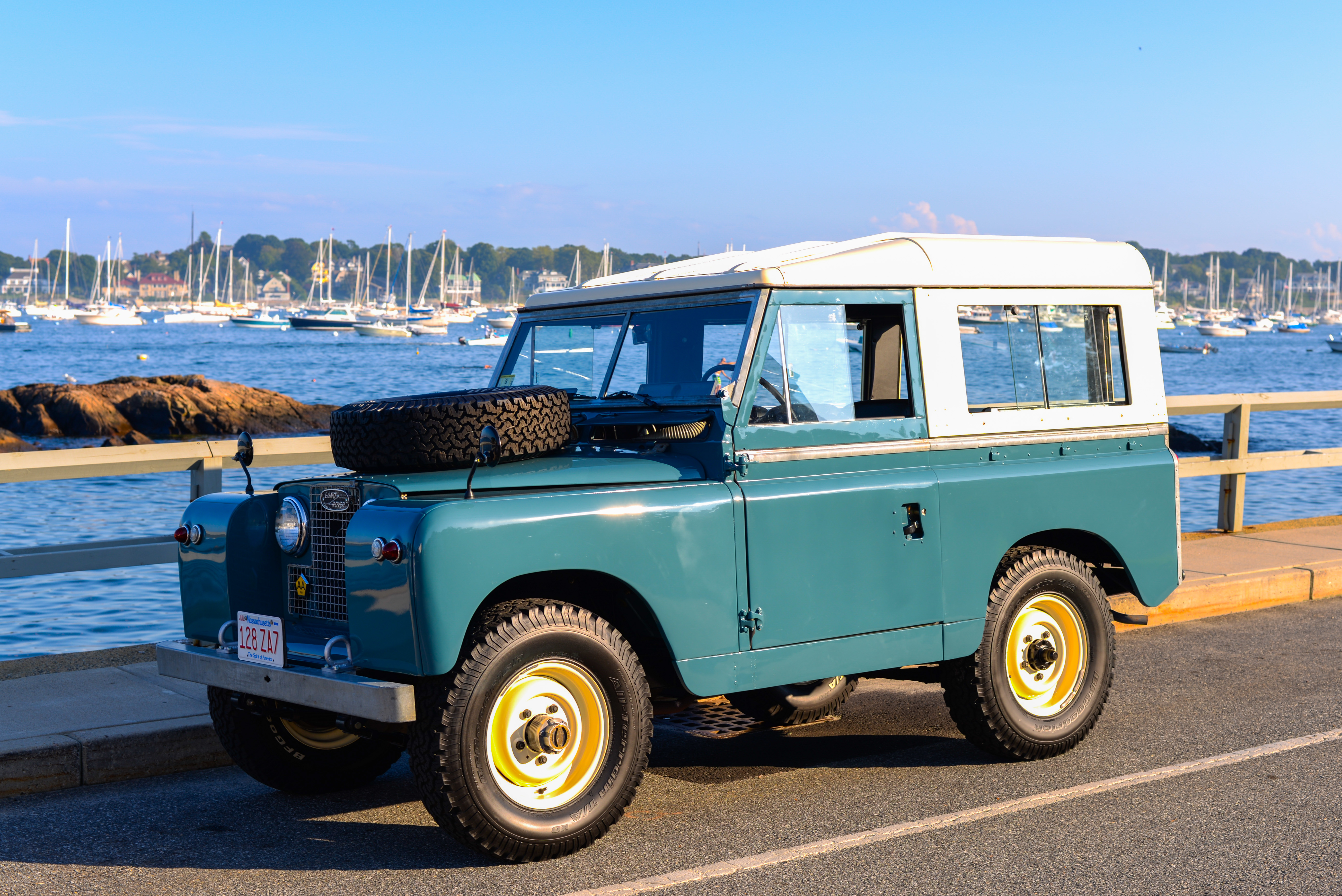 An antique Land Rover seen in Marblehead, Massachusetts